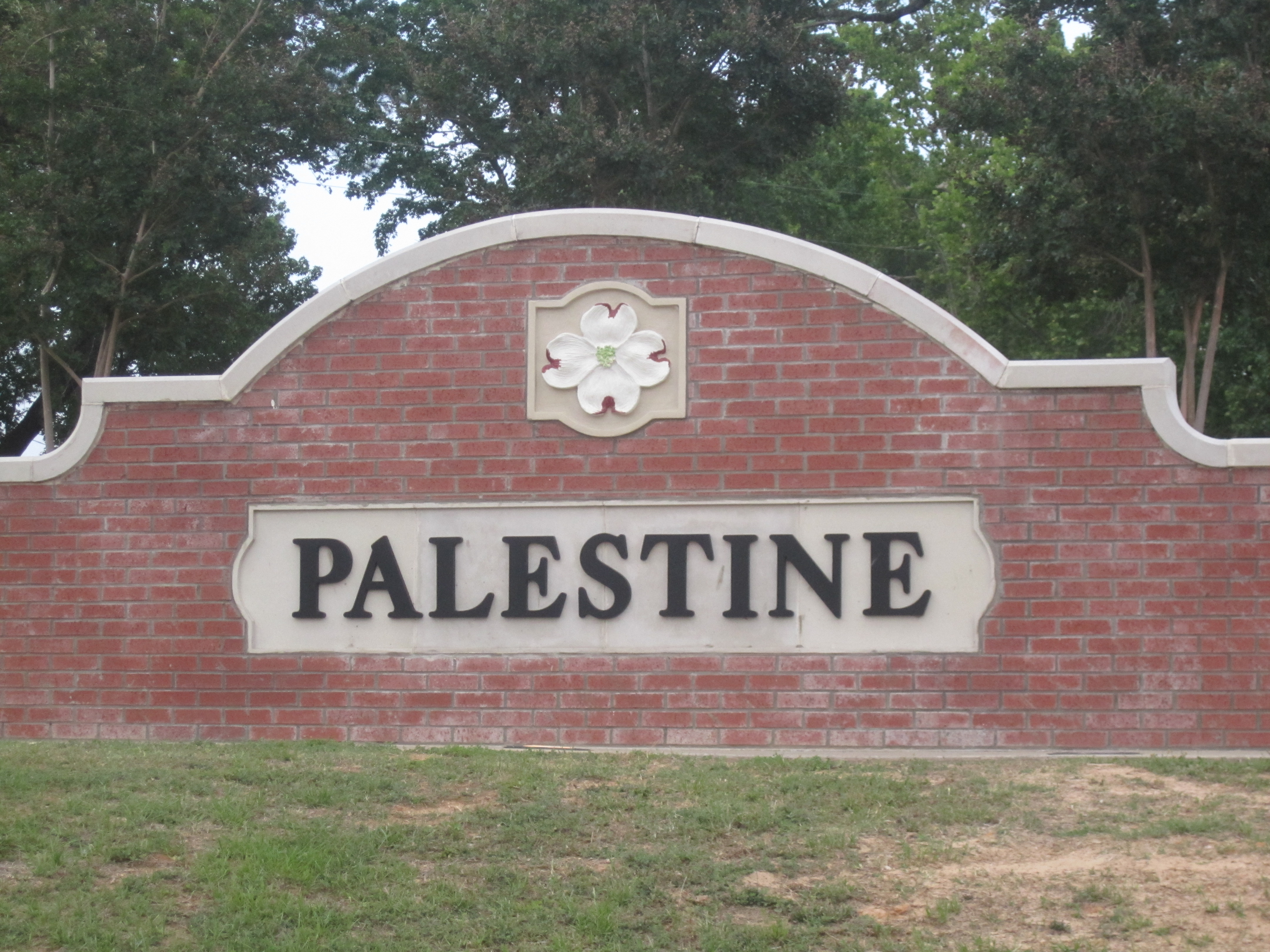 I took photo of Palestine, TX, sign, with Canon camera.